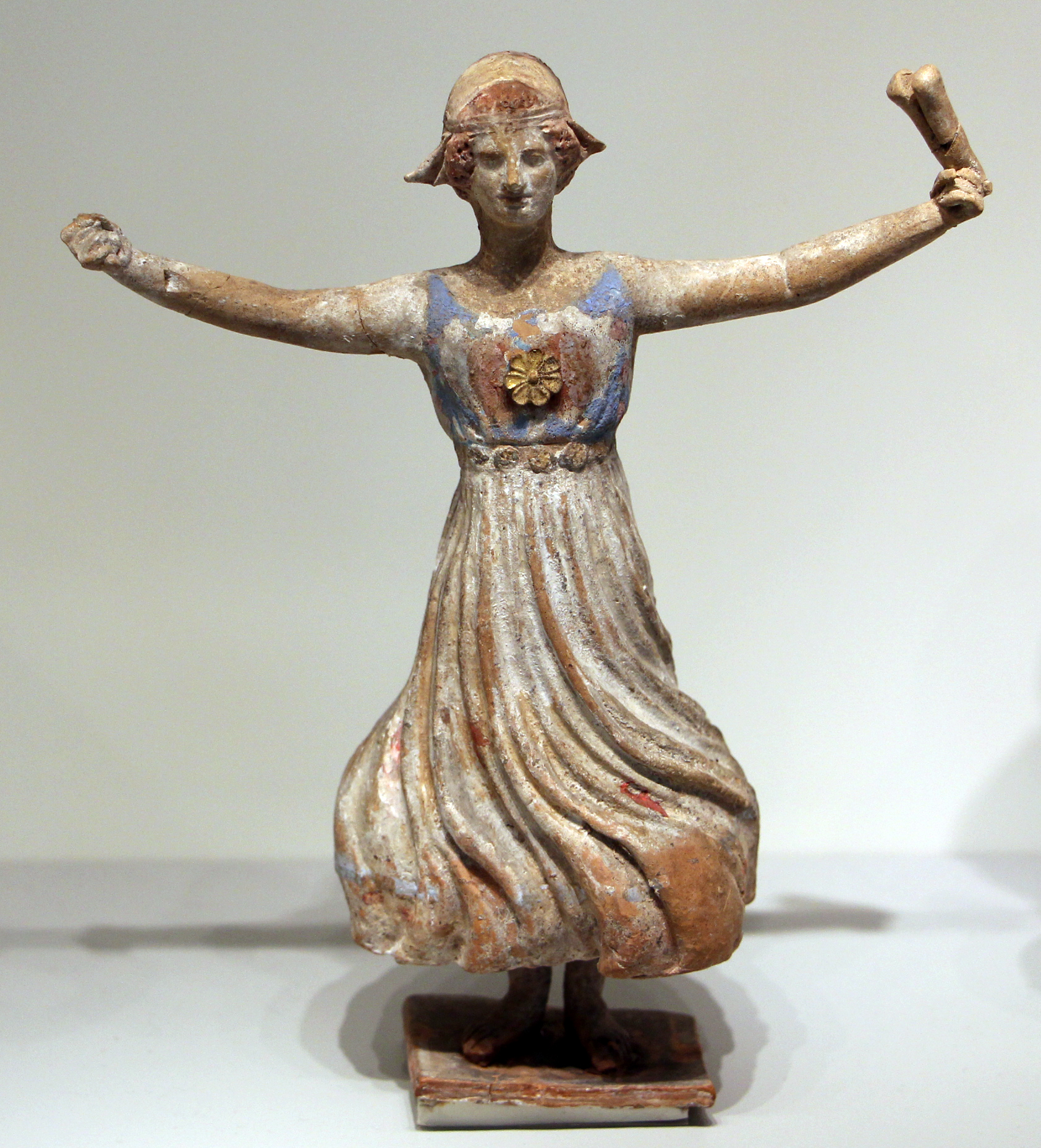 Ancient Greek terracotta in the Antikensammlung Berlin